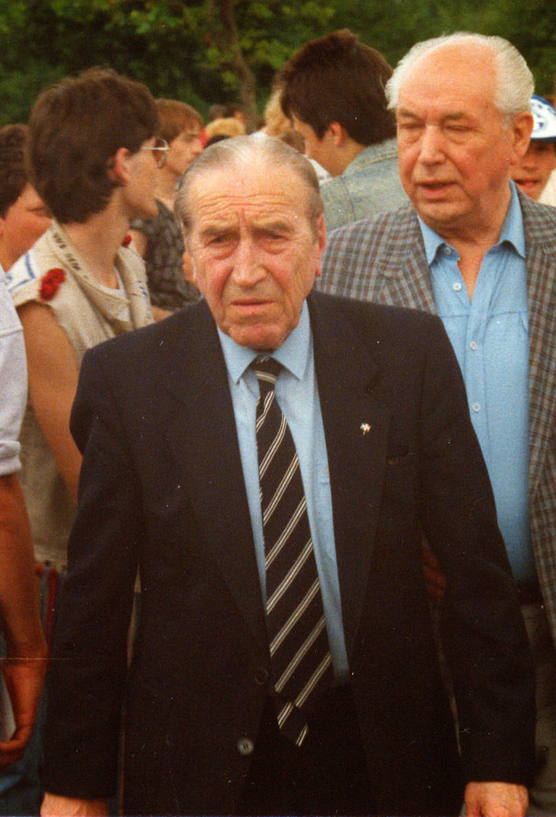 Ernst Kuzorra 1987